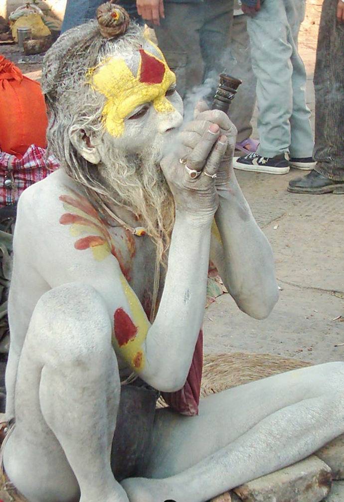 A sadhu in Pashupatinath Temple during Shivaratri.